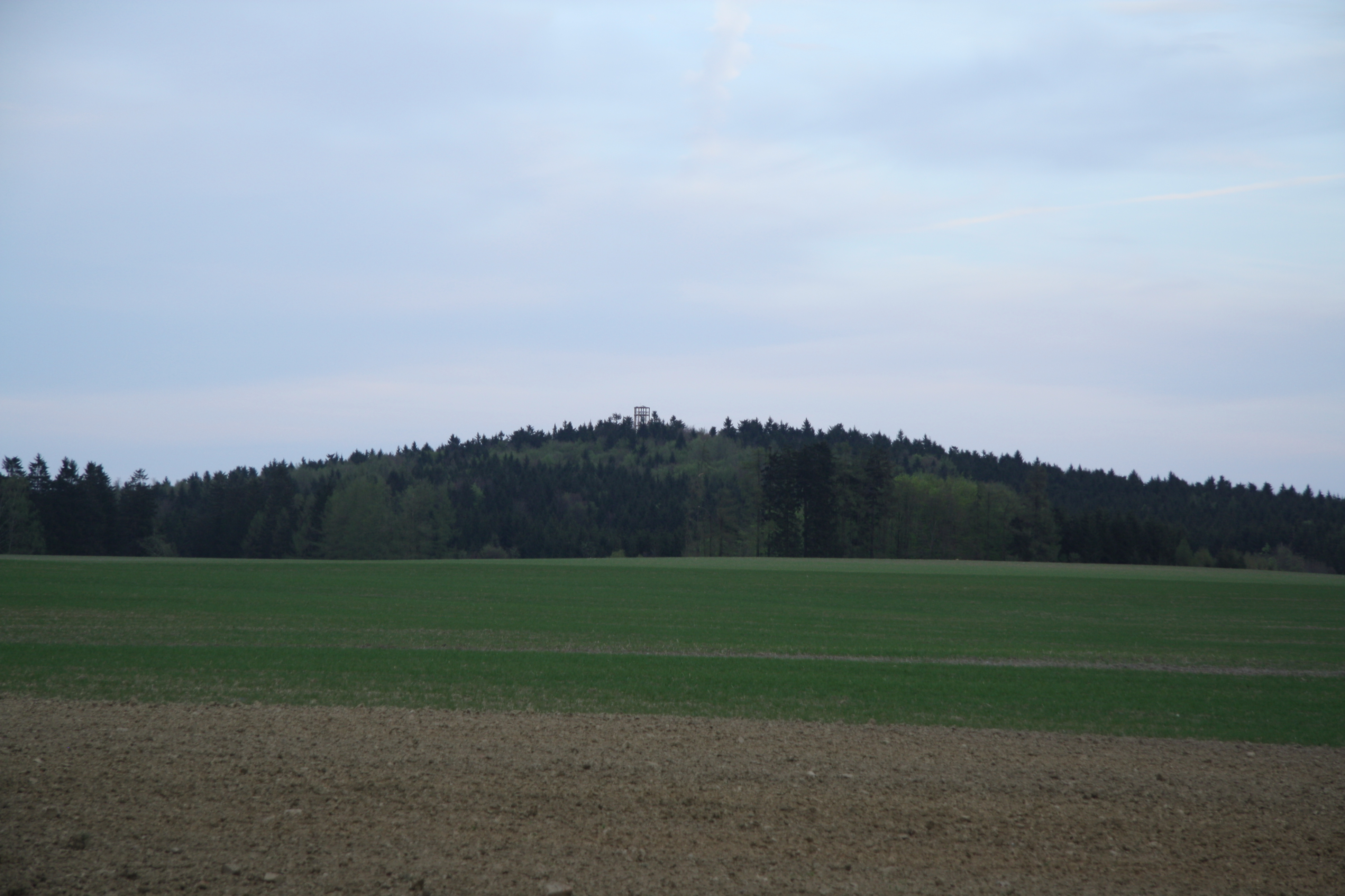 Mařenka mountain taken from Lesná, Třebíč District.